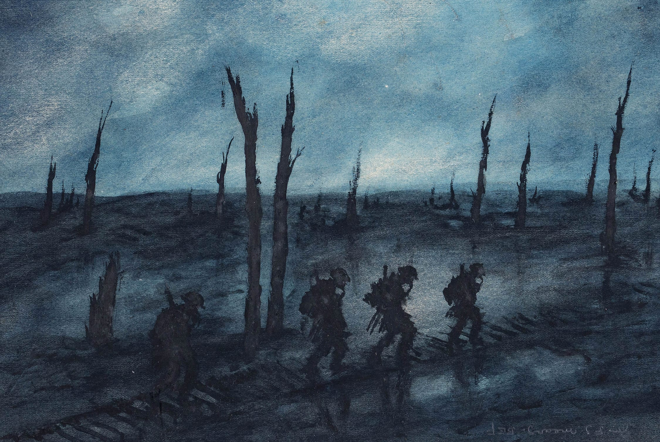 Offered for sale by Abbott and Holder in January 2020 when it was described as "MEARS Gunner F.J B.E.F. (1890-1929) WW1 battlefield at night. Ink and watercolour. Signed. 7.25x10.5 inches."